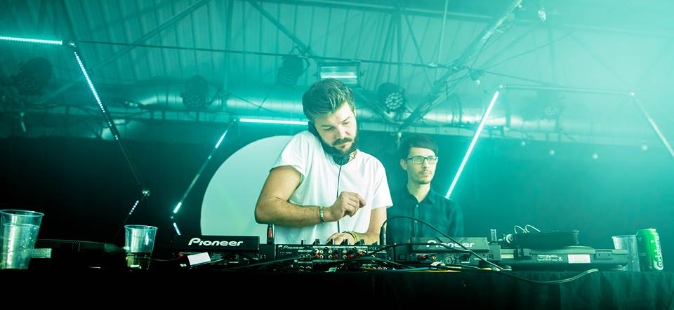 Illyus & Barrientos live at Drygate, Glasgow - New Years 2016 Party with Reset Robot and Mia Dora.